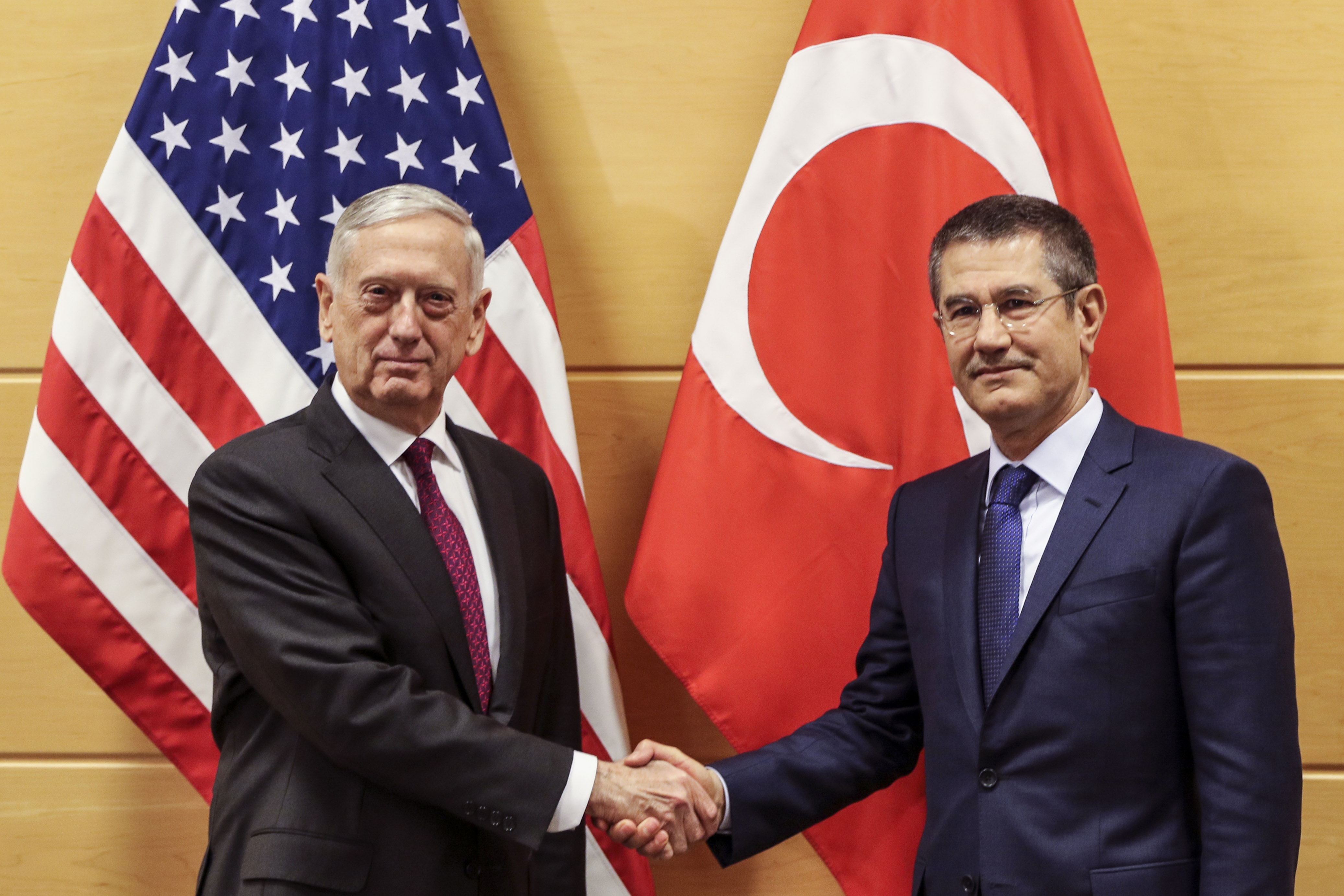 Defense Secretary James N. Mattis stands for a photo with Turkish Defense Minister Nurettin Canikli before bilateral discussion at NATO headquarters in Brussels, Feb. 14, 2018